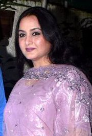 Actress Farah Naaz at the special screening of the film Satellite Shankar